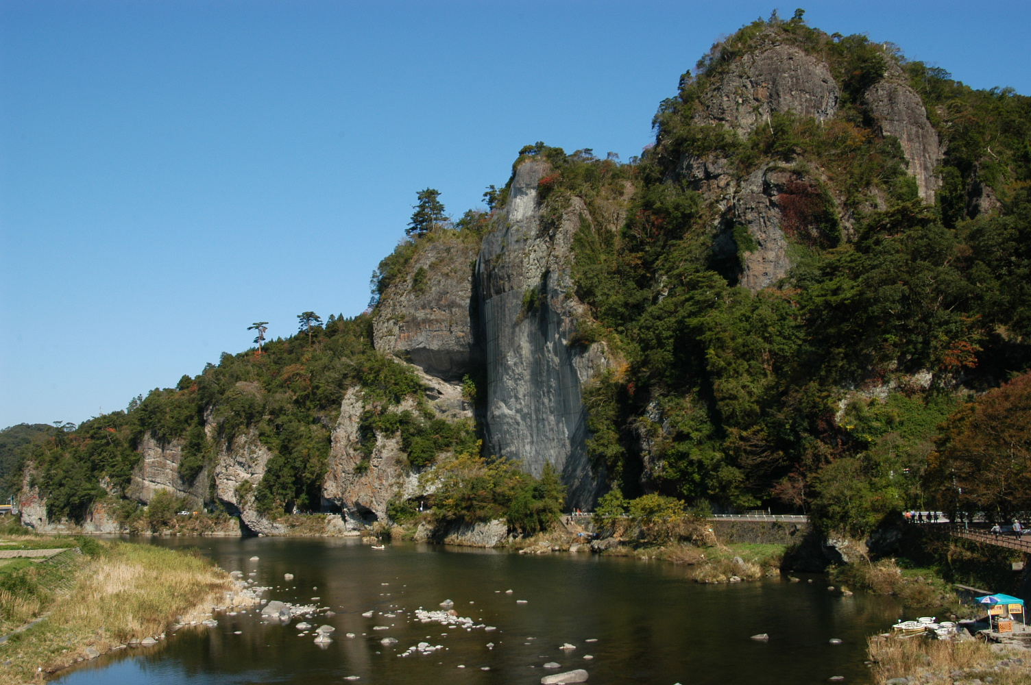 Kyōshuhō Ridge, Nakatsu, Oita, Japan